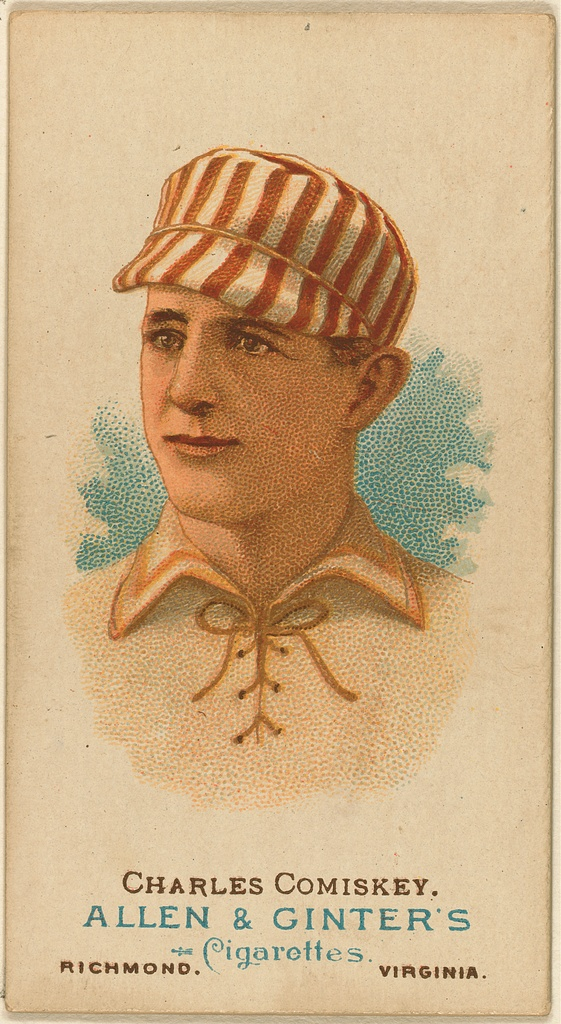 Charles Comiskey, St. Louis Browns baseball card, 1887